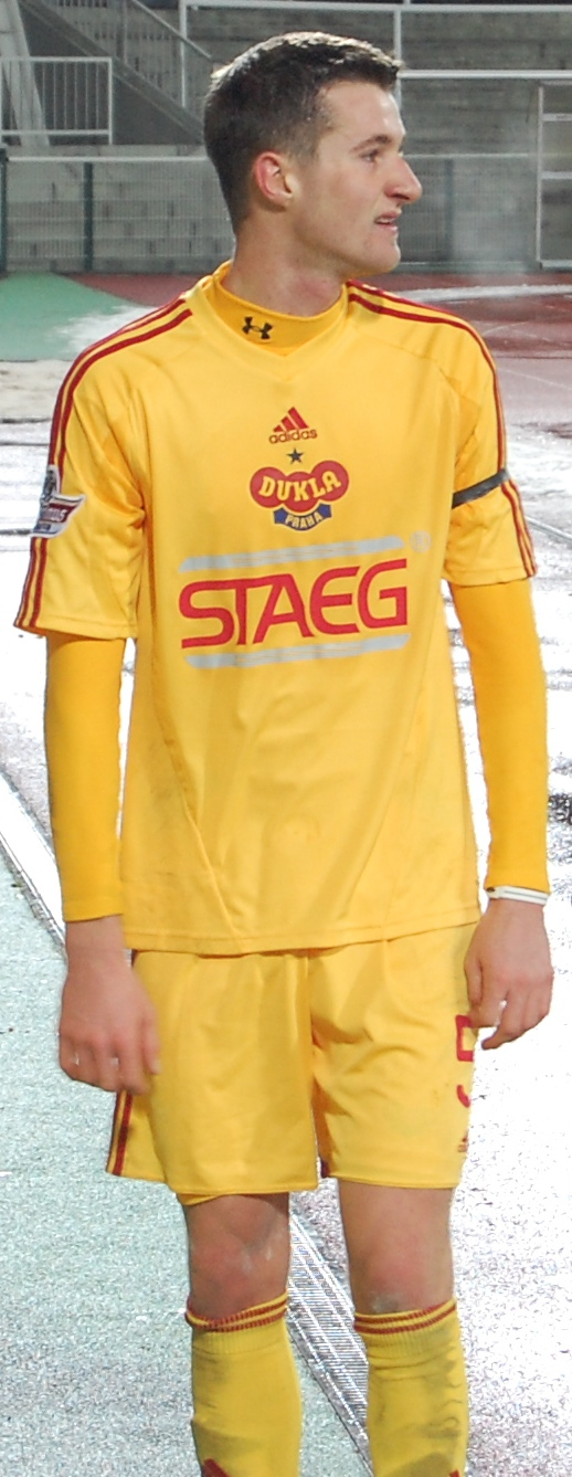 Marek Hanousek of Dukla Prague after the match against FK Viktoria Žižkov.